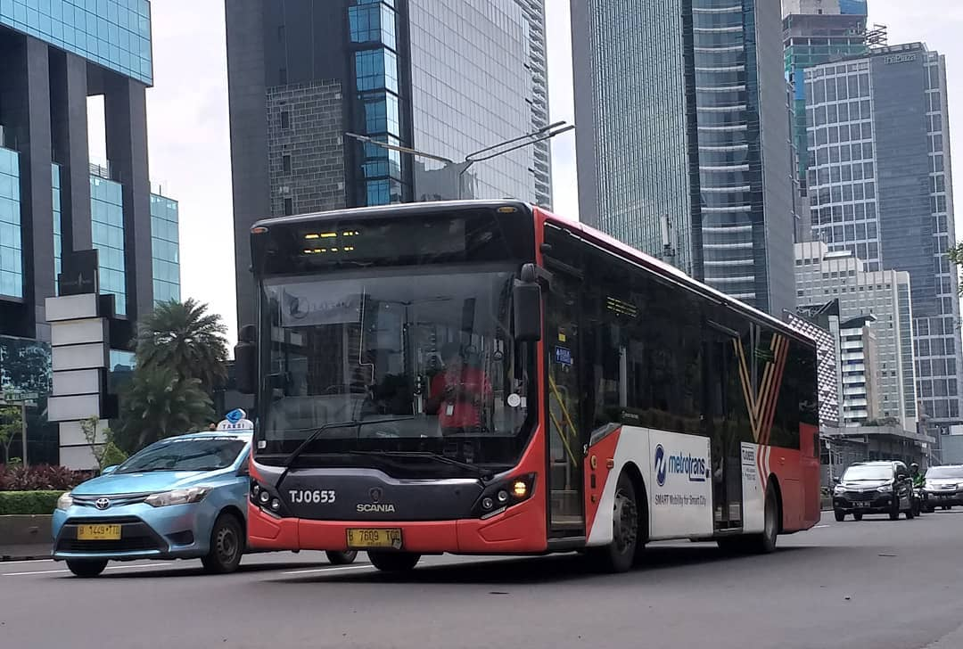 Laksana CityLine bodied Scania K250UB MetroTrans (TransJakarta Feeder Bus), Serving Bundaran Senayan to Harmoni Central